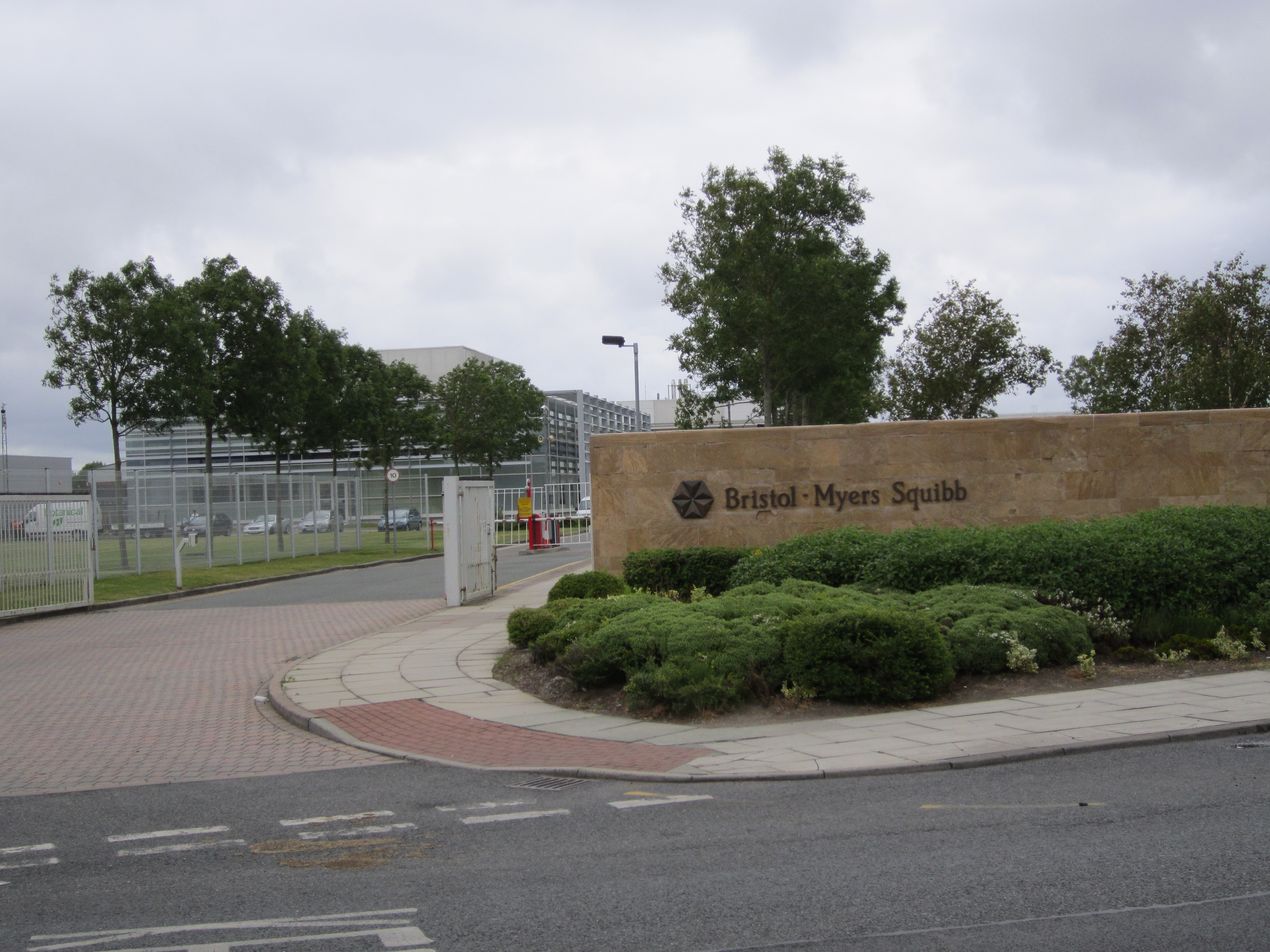 Entrance to the Bristol-Myers Squibb site at Reeds Lane, Moreton, Wirral, England.